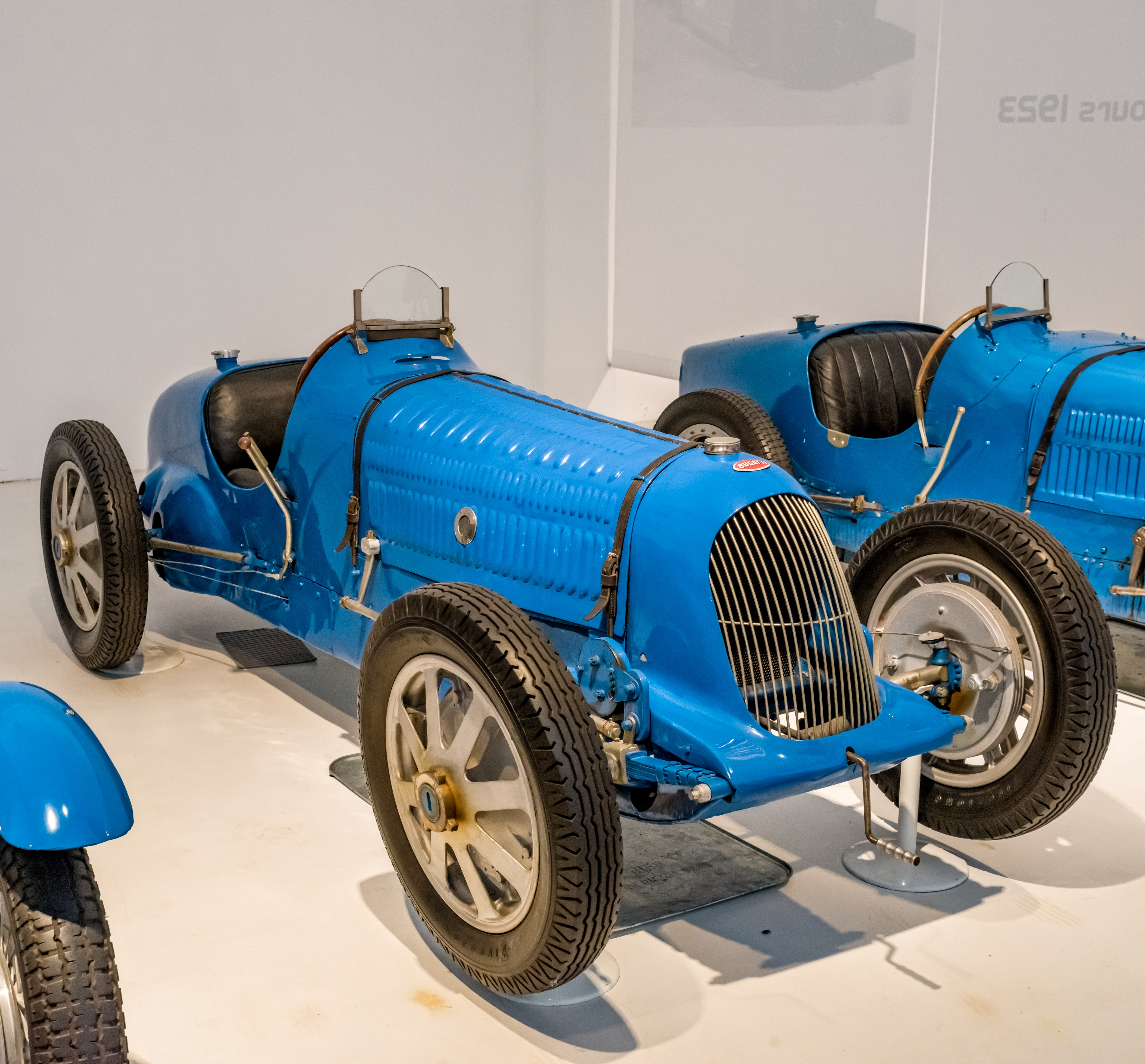 pictures from the Cité de l’Automobile – Musée National – Collection Schlump in Mulhouse, France ptictures from the 10. may 2018